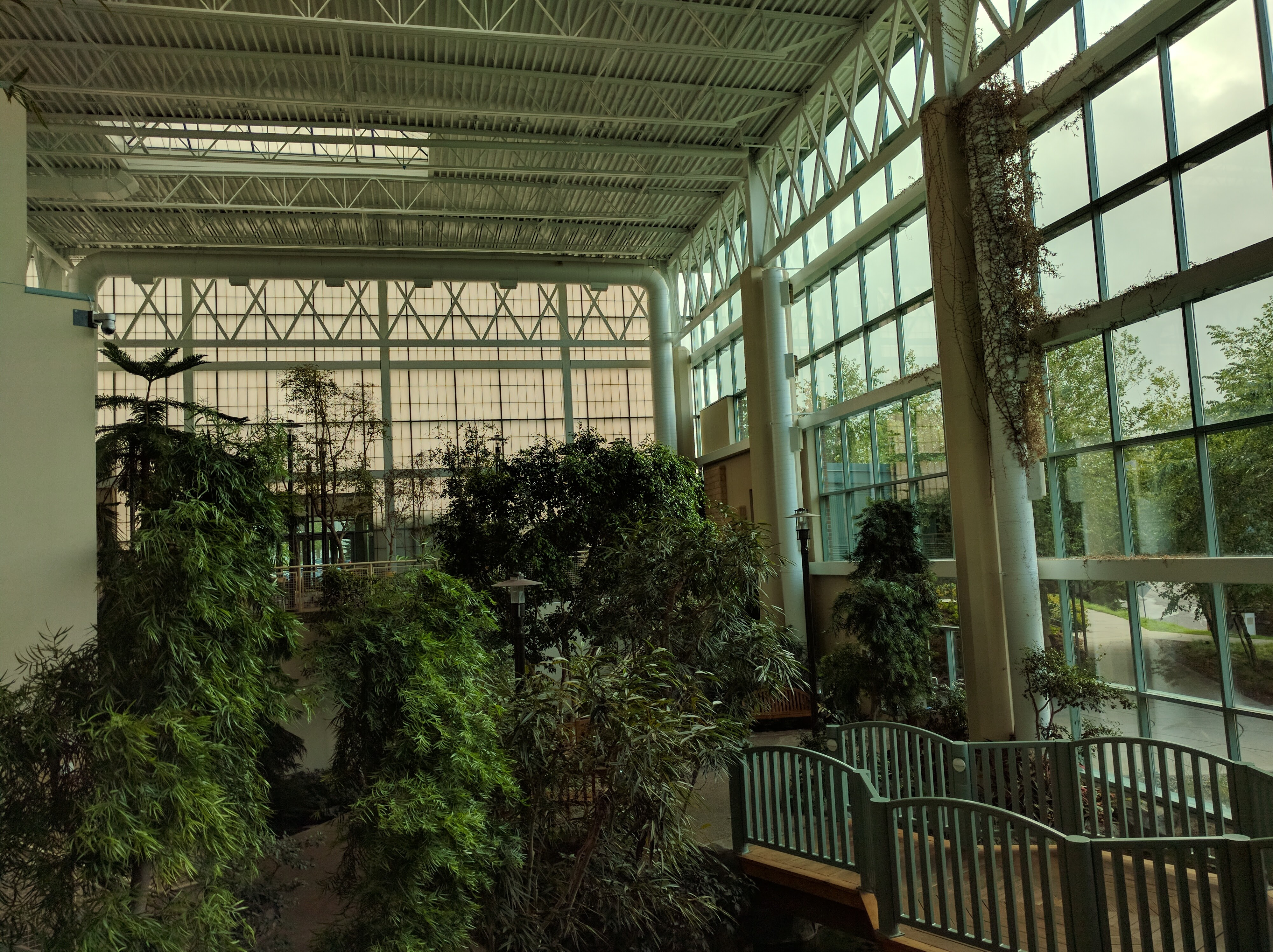 A large open space with lots of trees.